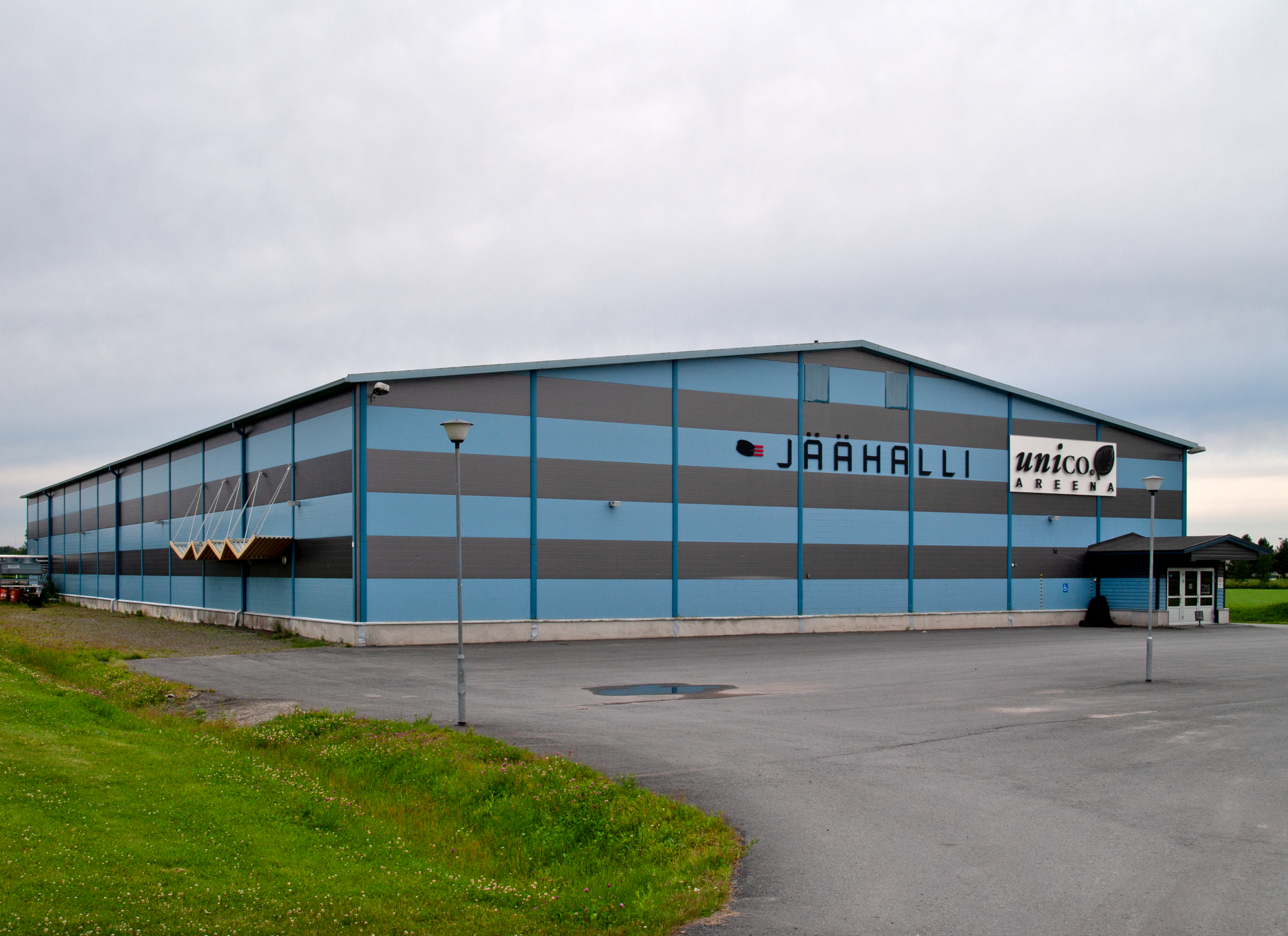 Kauhava Ice Hall.